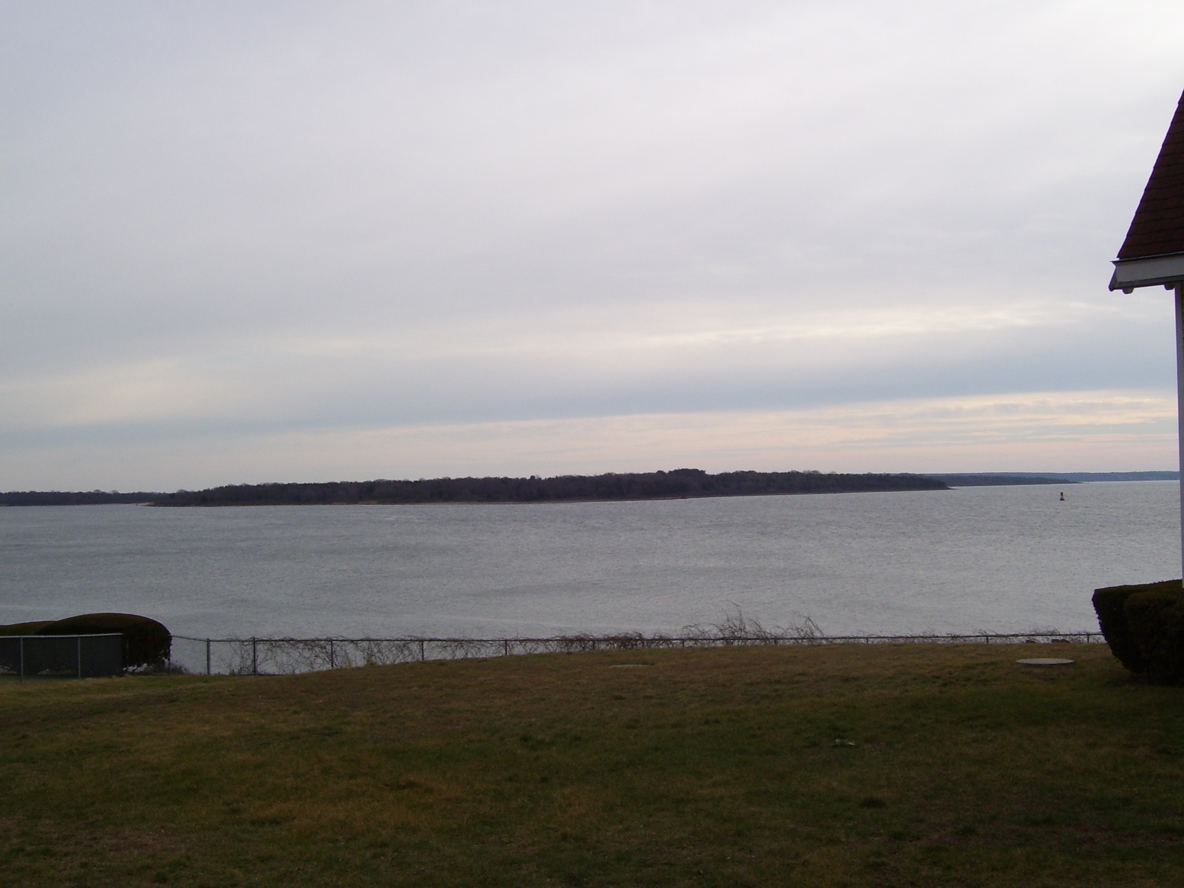 This is my 2008 photo of Patience Island in Rhode Island.